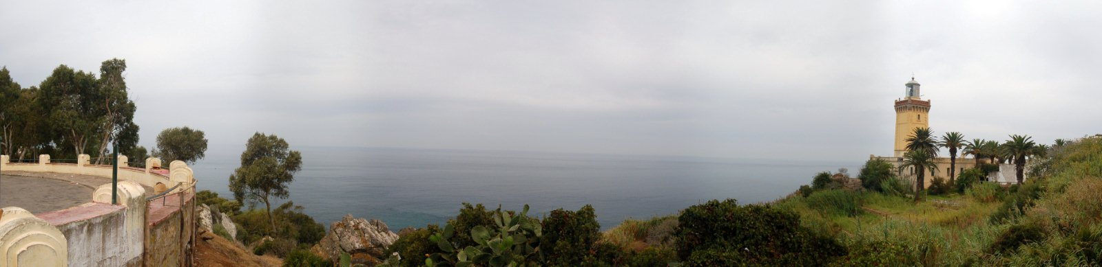 Overlooking Tangier Bay, Morocco